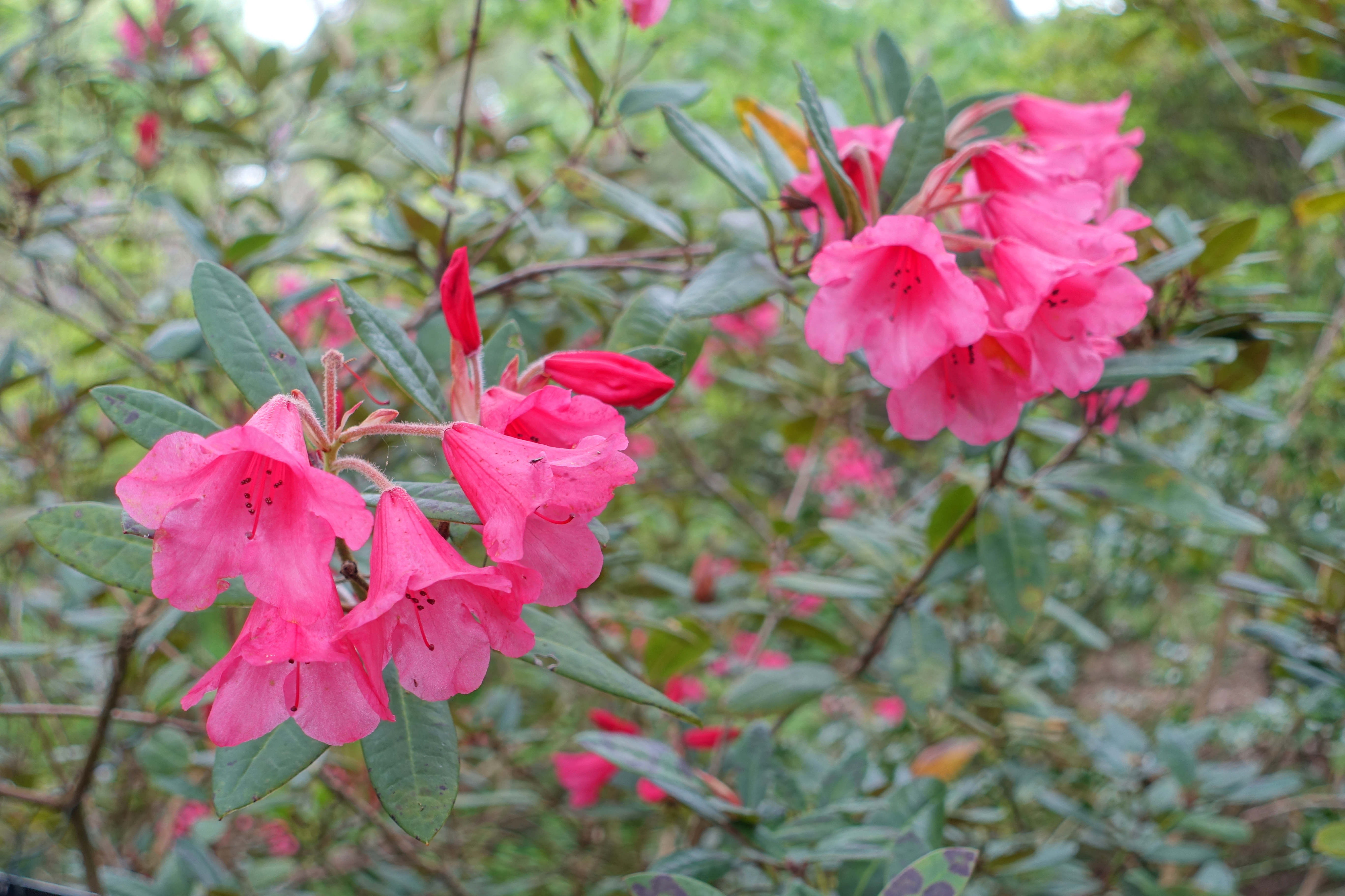 Horticultural specimen in Sir Harold Hillier Gardens - Romsey, Hampshire, England.